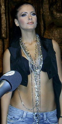 Anelia shooting "Edinstven ti".